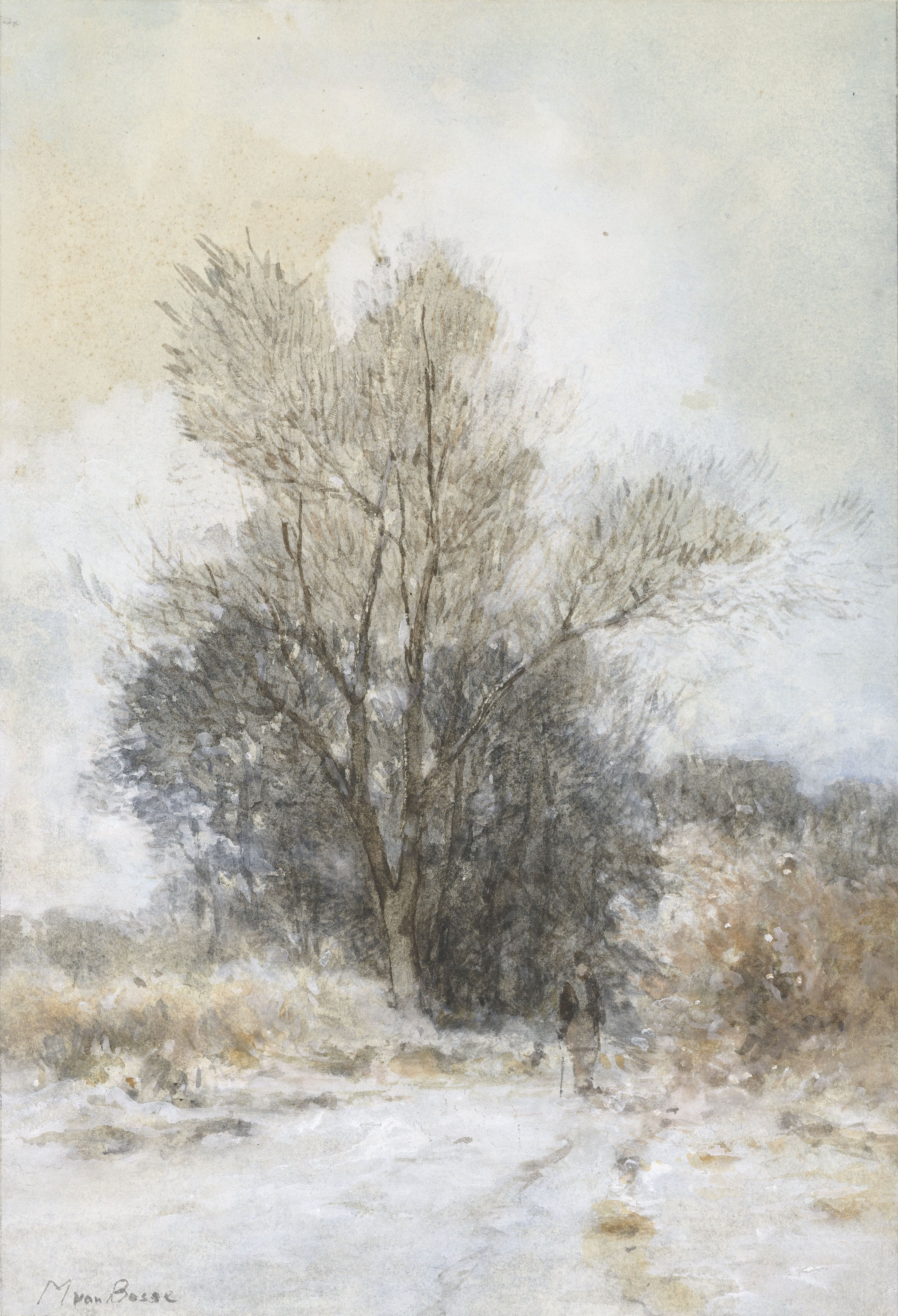 Walker in the snow